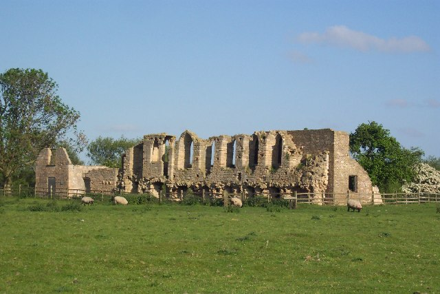 Ruins of Tupholme Abbey, near Southrey. 'Tup' is a word for sheep and 'holme' comes from the Saxon word for island or raised piece of ground. The sheep are still there and there is indeed a gentle climb to the abbey ruins.